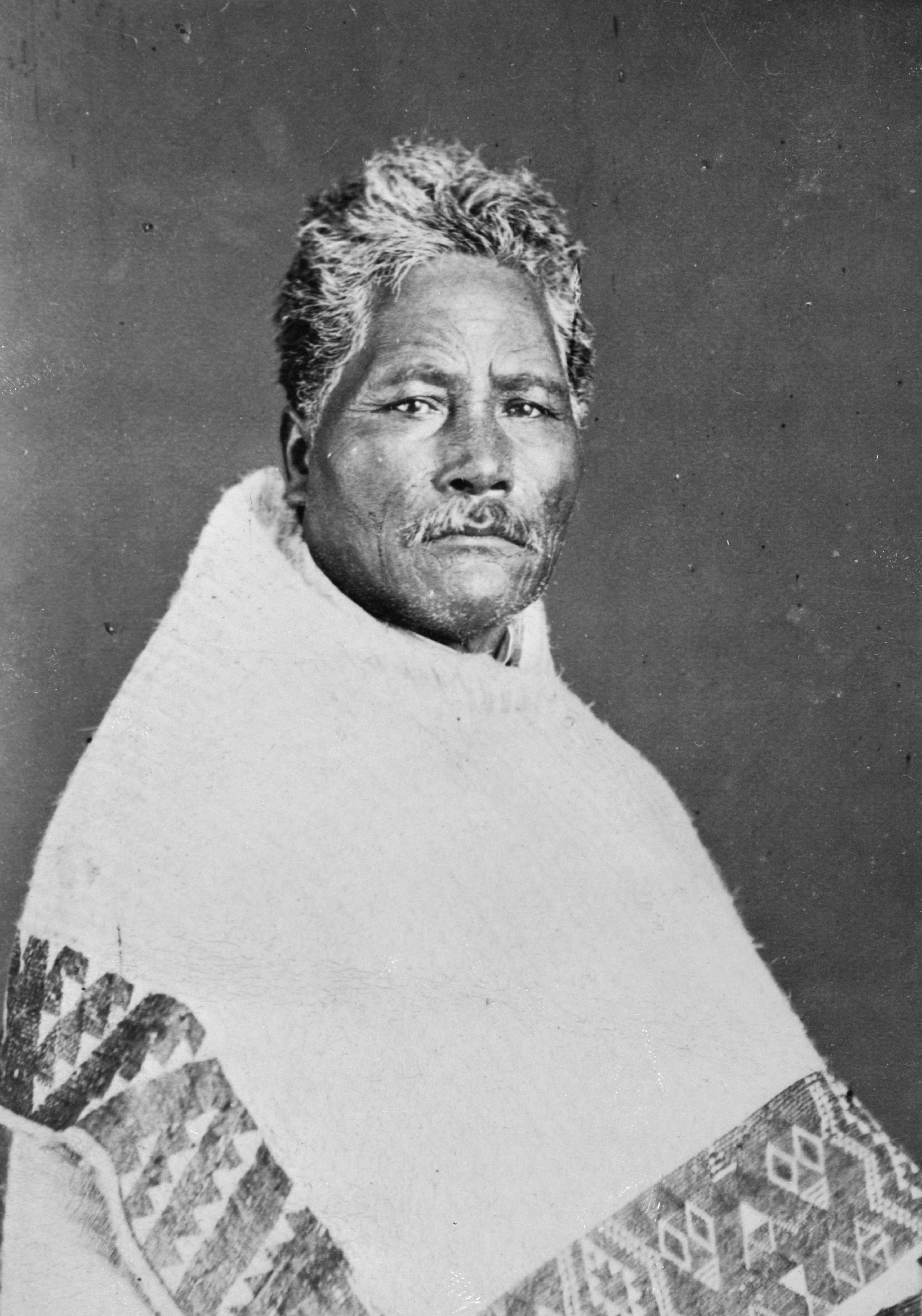 Mokena Kohere, circa 1870s. Location, and photographer, unidentified. Seated portrait. Shows him wrapped in a cloak.